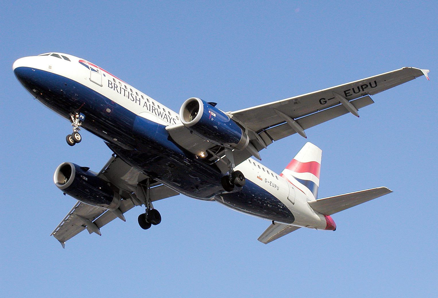 British Airways Airbus A319-100 (G-EUPU) landing at London Heathrow Airport, England. Photographed by Adrian Pingstone in 2003 and released to the public domain.